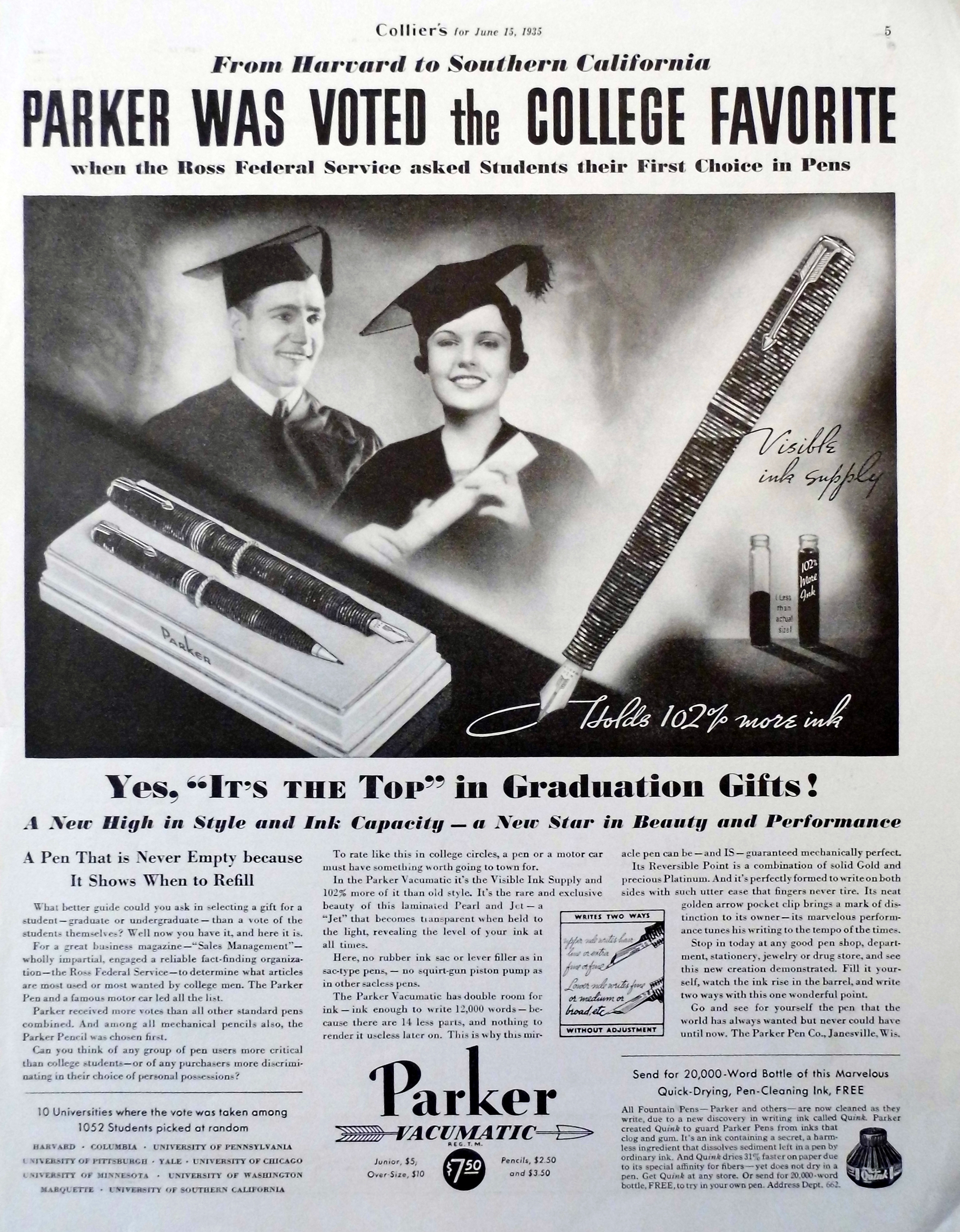 Vintage Advertising - Parker Pen Company, Janesville, WI, "From Harvard to Southern California, Parker Was Voted the College Favorite", Parker Vacumatic, From Collier's Magazine, June 15, 1935